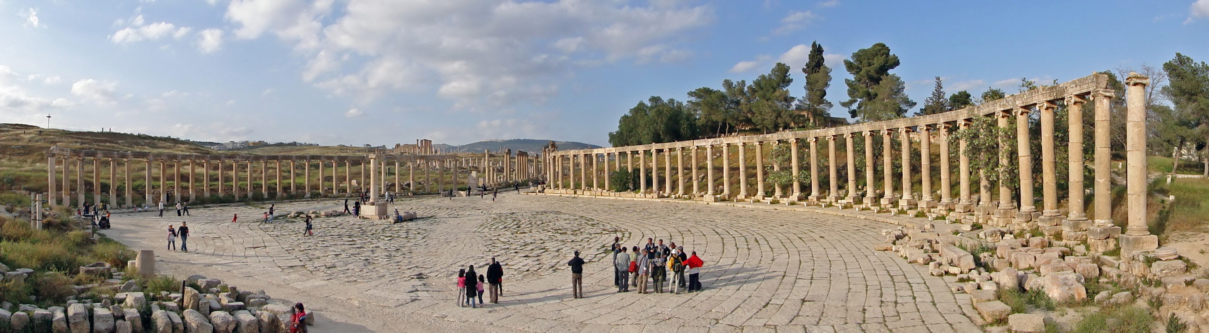 The Oval forum of Jerash, Jordan